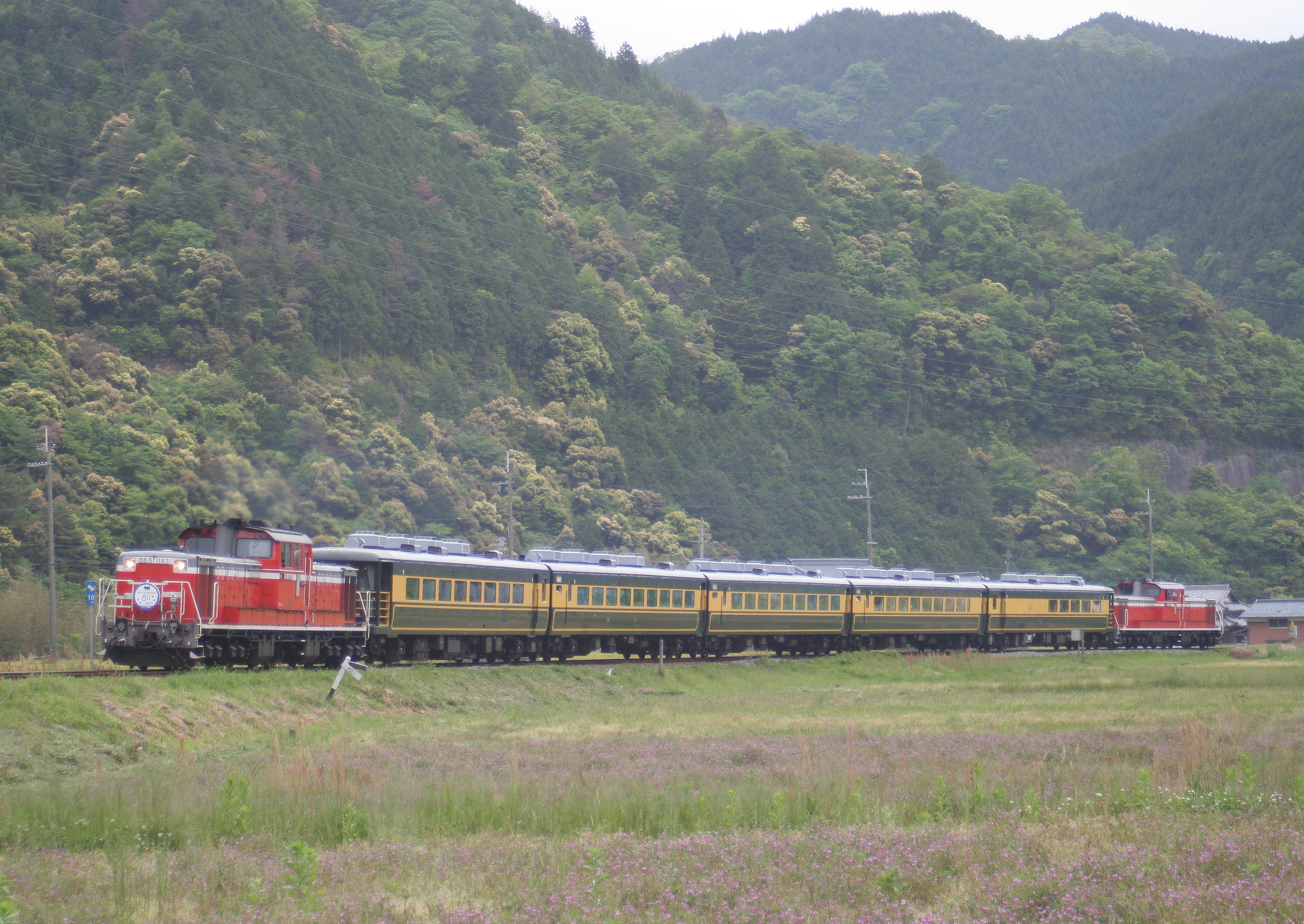 West Japan Railway Salon Car Naniwa （Bantan Line、Teramae - Hase）